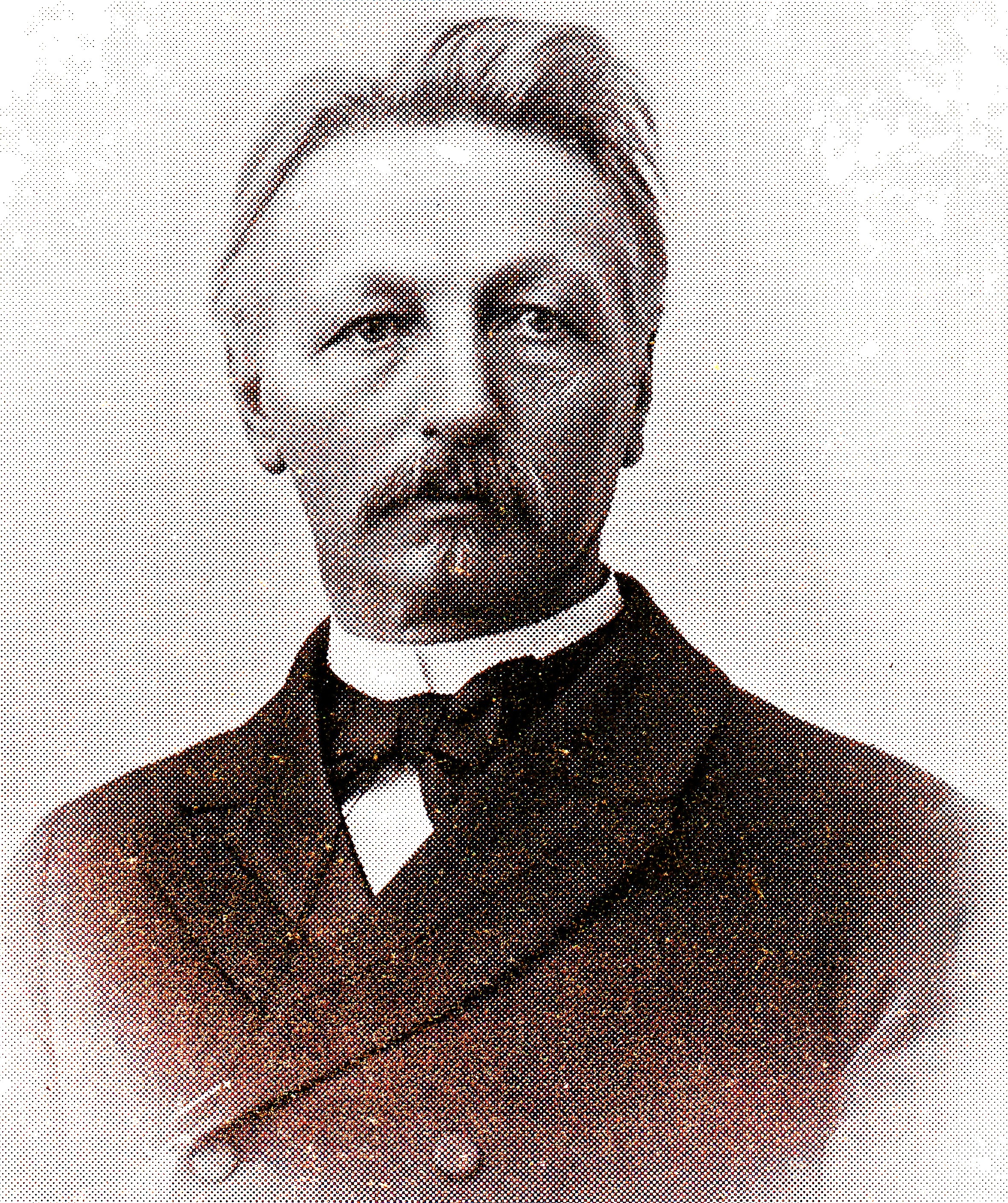 Professor Dr. J.H. Gallee